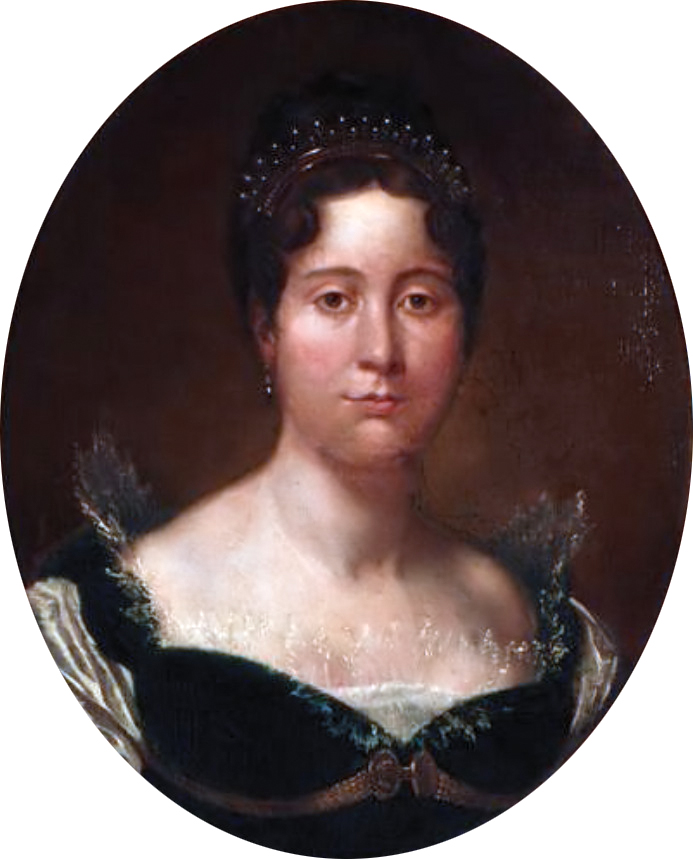 Augusta Eleonora Carolina, countess von Hohenlohe Langenburg (1775-1813), second wife of Dirk van Hogendorp (1761-1822)